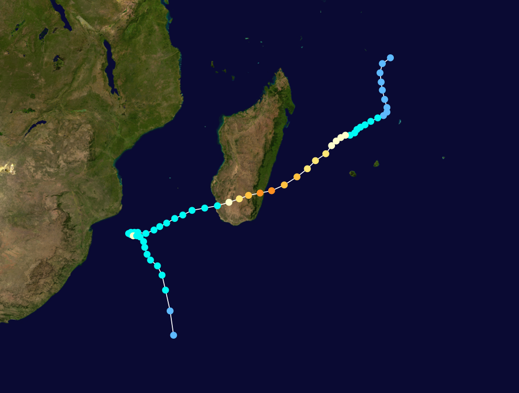 Cyclone Gretelle (1997) track. Uses the color scheme from the Saffir-Simpson Hurricane Scale.